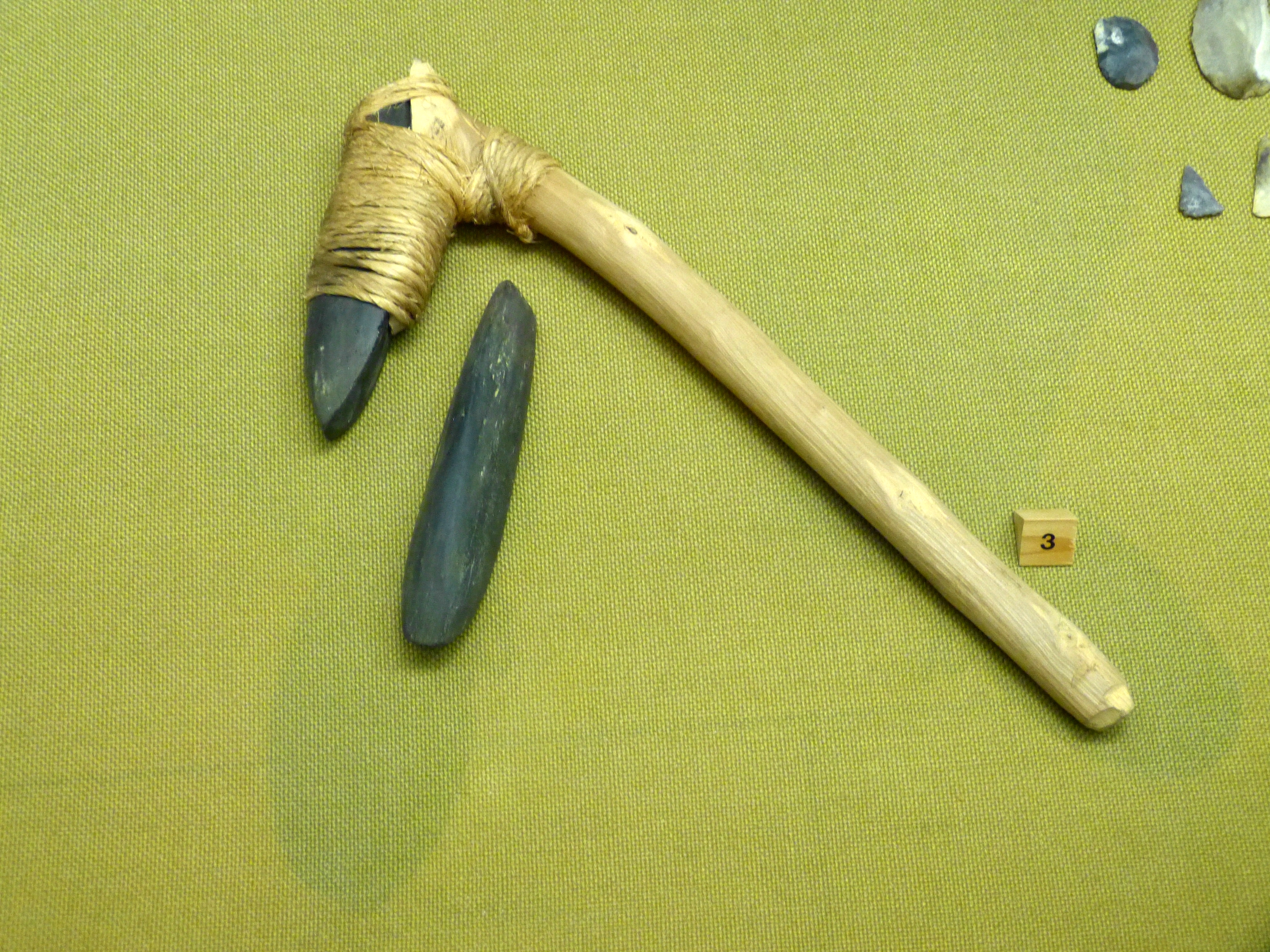 Gaienhofen ( Baden-Württemberg ). Höri-Museum - Stilt houses collection: Reconstructed neolithic shoe-last stone axe from a stilt house village at Gaienhofen-Untergarten.